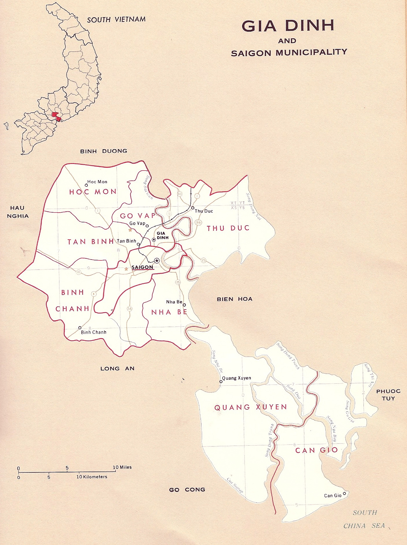 Gia-dinh Province Unknown